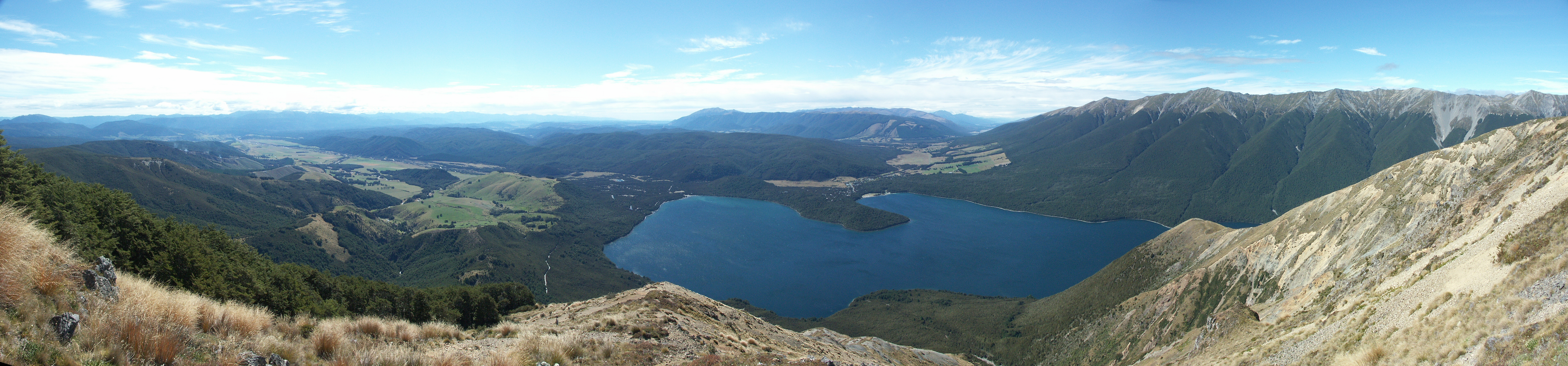 Panoramic view of Lake Rotoiti and the St. Arnaud Range (behind the lake, on the right). Composed from 5 images taken from the northern part of the Robert Ridge.